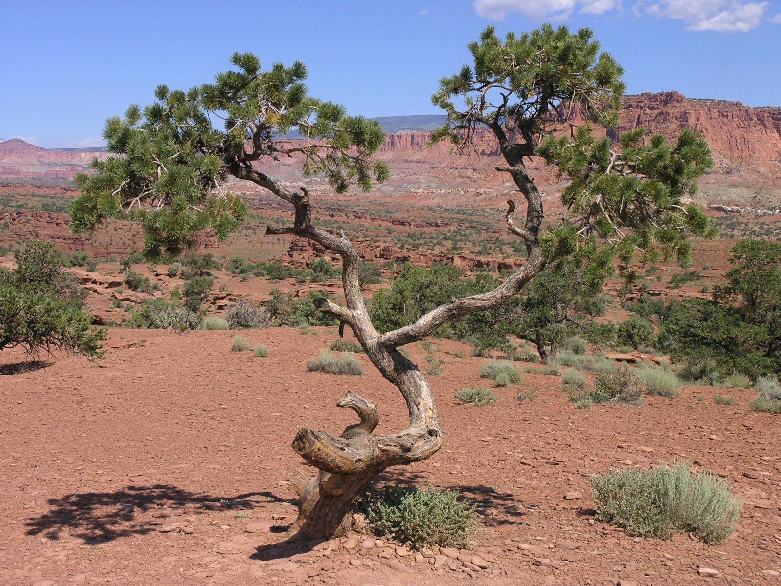 Pinus edulis. Picture taken by Daniel Mayer in late June 2005.